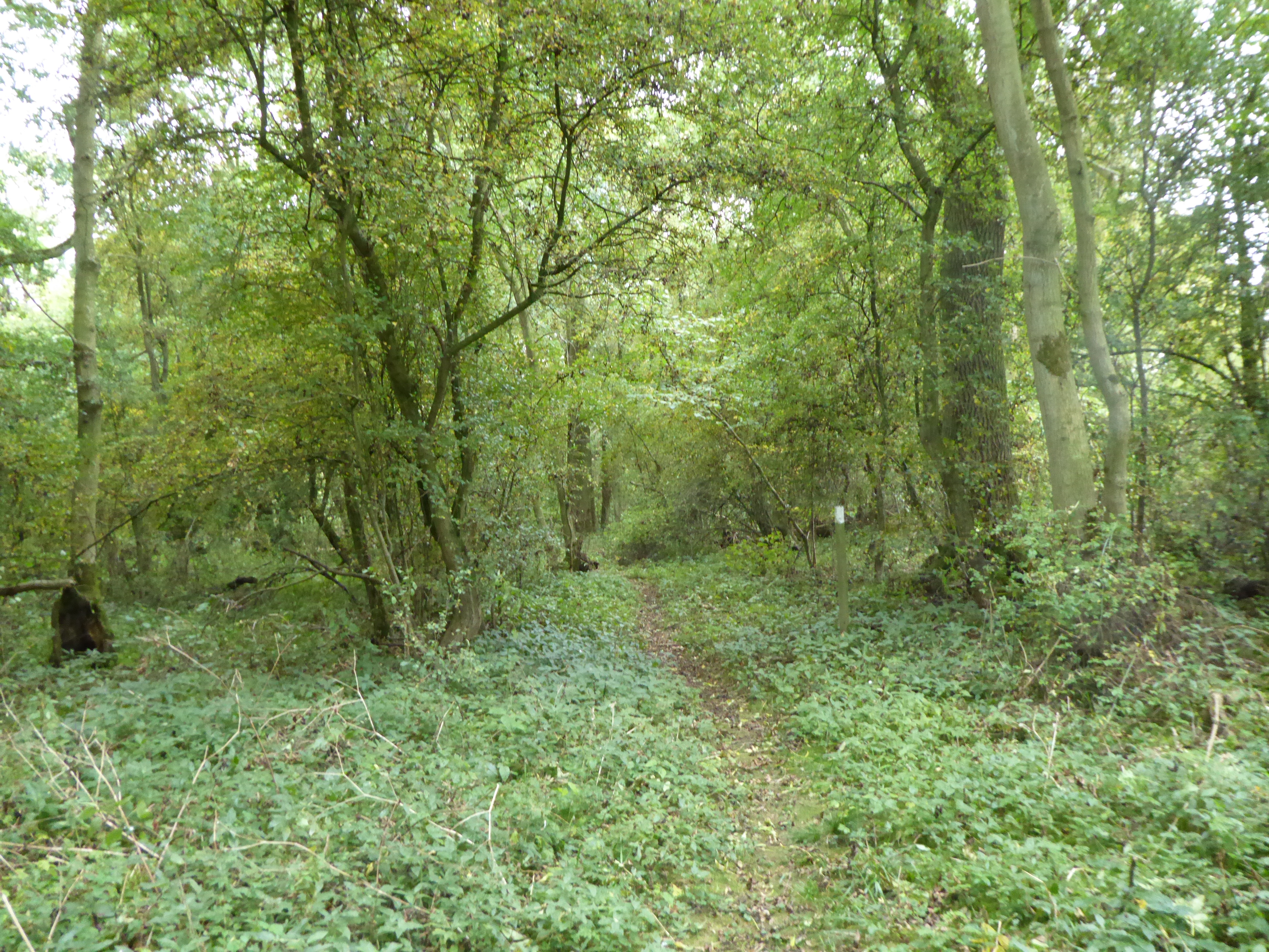 Great Merrible Wood is a nature reserve east of Hallaton in Leicestershire. It is managed by the Leicestershire and Rutland Wildlife Trust and is part of the Eye Brook Valley Woods Site of Special Scientific Interest.